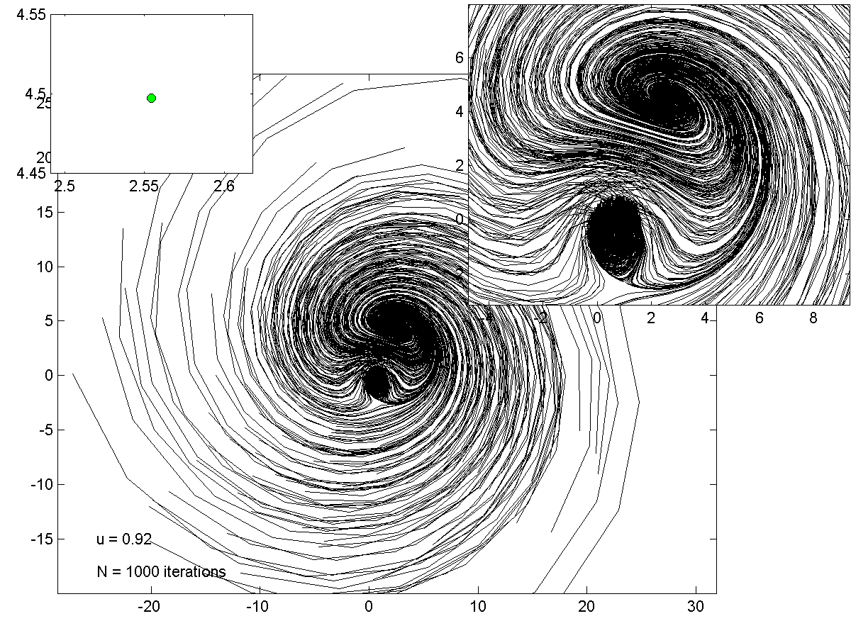 Ikeda trajectory plot made using MATLAB